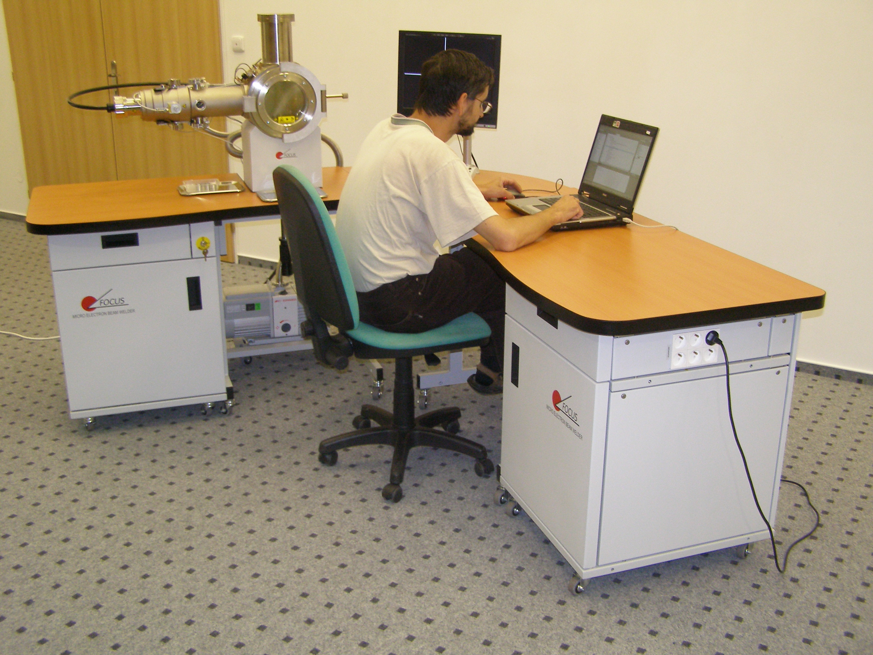 Micro electron beam welder MEBW 60/2